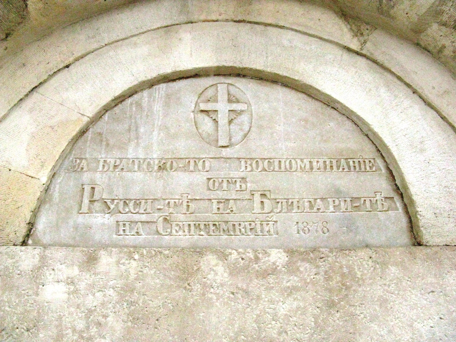 Sts. Constantine and Helen Church (Edirne), Plaque